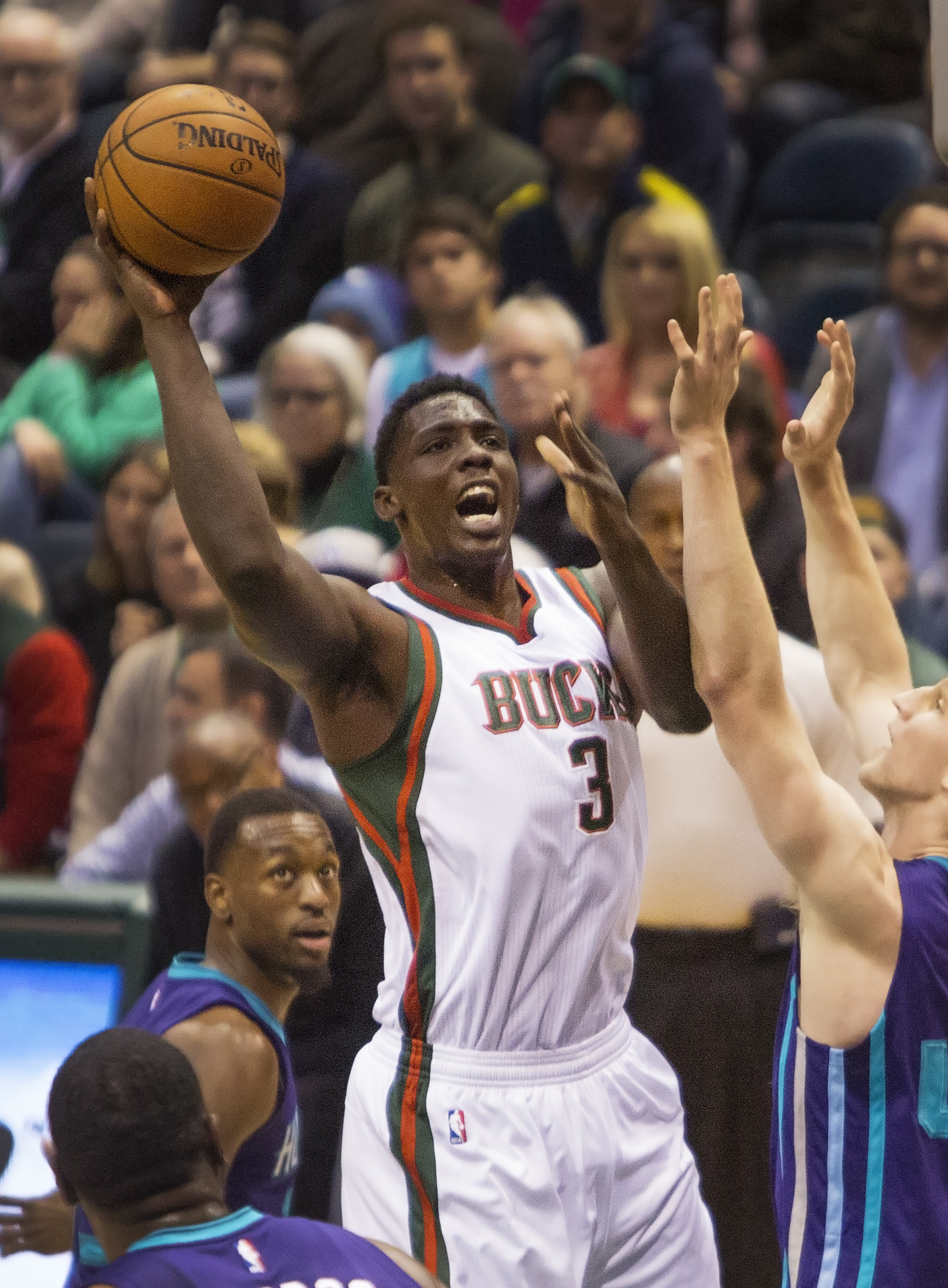 Johnny O'Bryant III takes a shot during the Bucks/Hornets game on December 23, 2014.